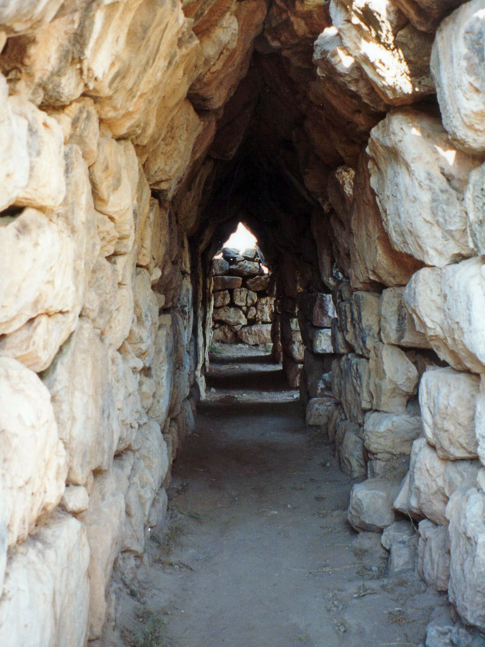 Tiryns, Greece. Photo of a tunnel in the castle.